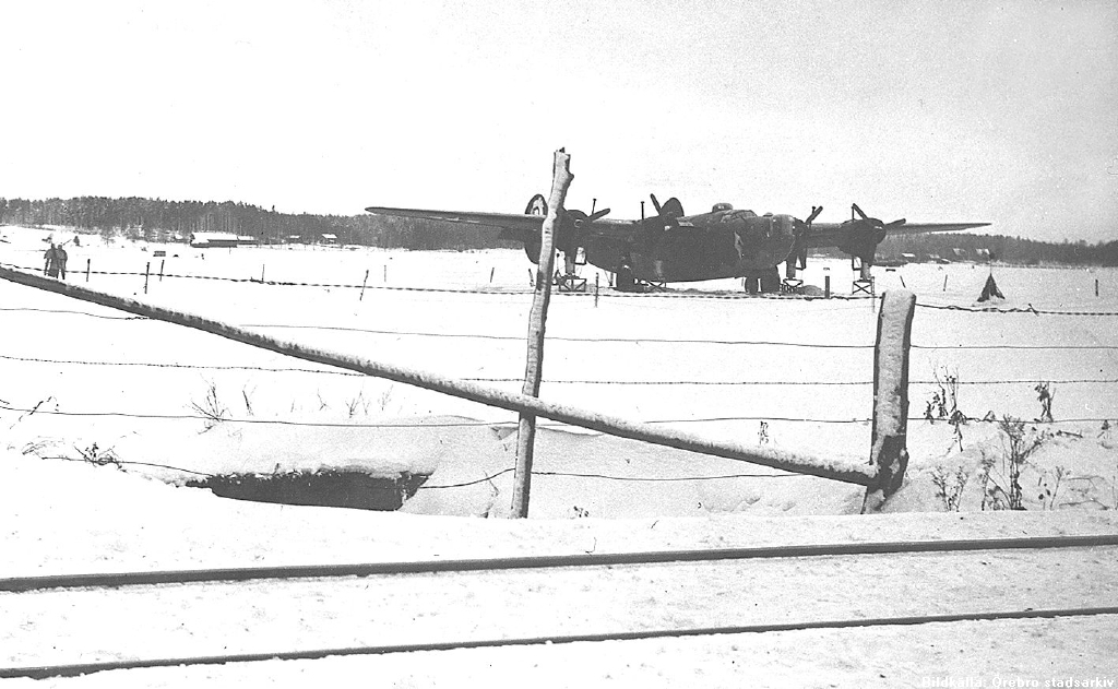 "Flying Fire Bell ', an American B24 Liberator (B-24-H-1-PO, S / N 42-7502, code unit EC-X 578/392) which landed along with another Liberator (not pictured) in Örebro on November 18, 1943 after a bombing raid on Kjeller airport outside Oslo. The aircraft were later moved to a depot at Västerås, where they remained to the end of the war, when they were scrapped.